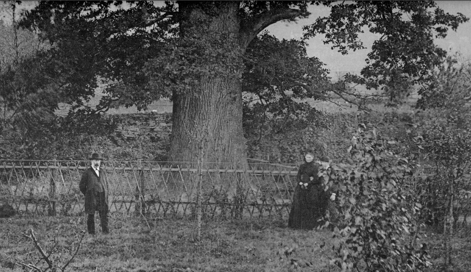 Harkort VI in front of oak family tree 1886